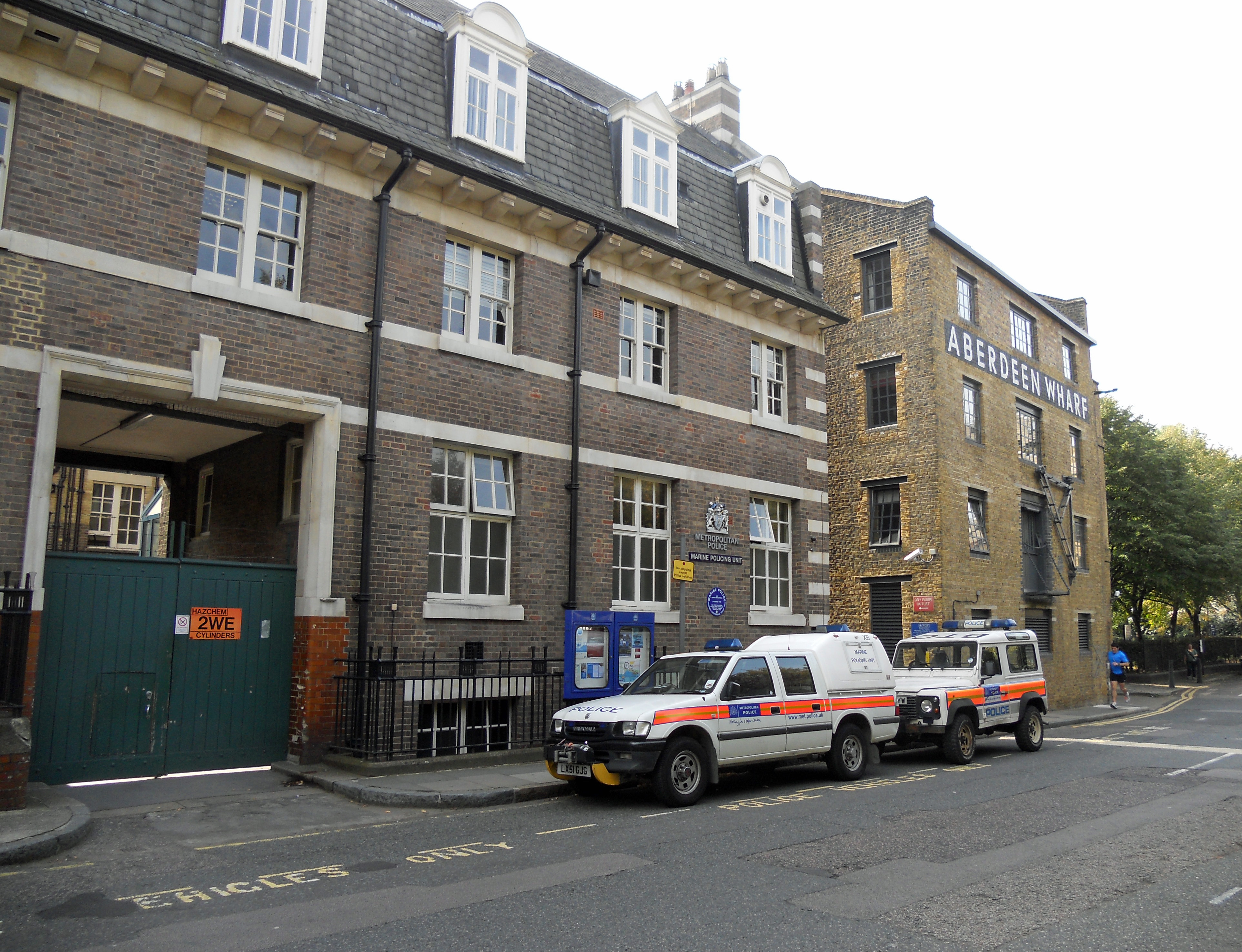 Metropolitan Police Service's marine policing unit's base at Wapping, east London.